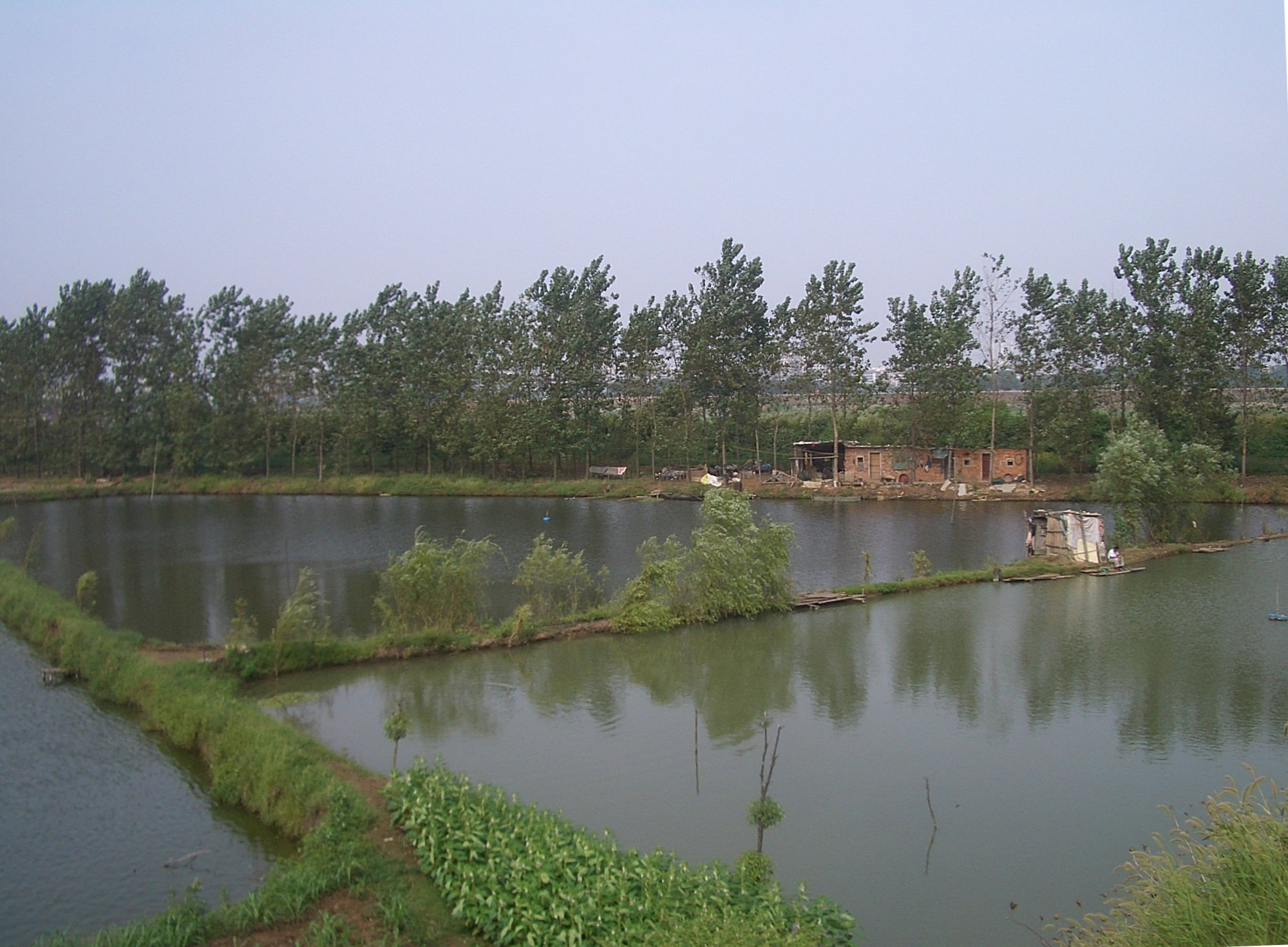 People fishing on a system of ponds constructed on a bay of the Daye Lake, on, on the south sude of the Daye Town (Huangshi CIty, Hubei). Not sure if one has to buy a ticket to fish there, or if it's free-for-all.